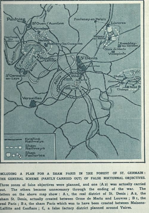 Detailed map of fake Paris 1917 with suburban area english version